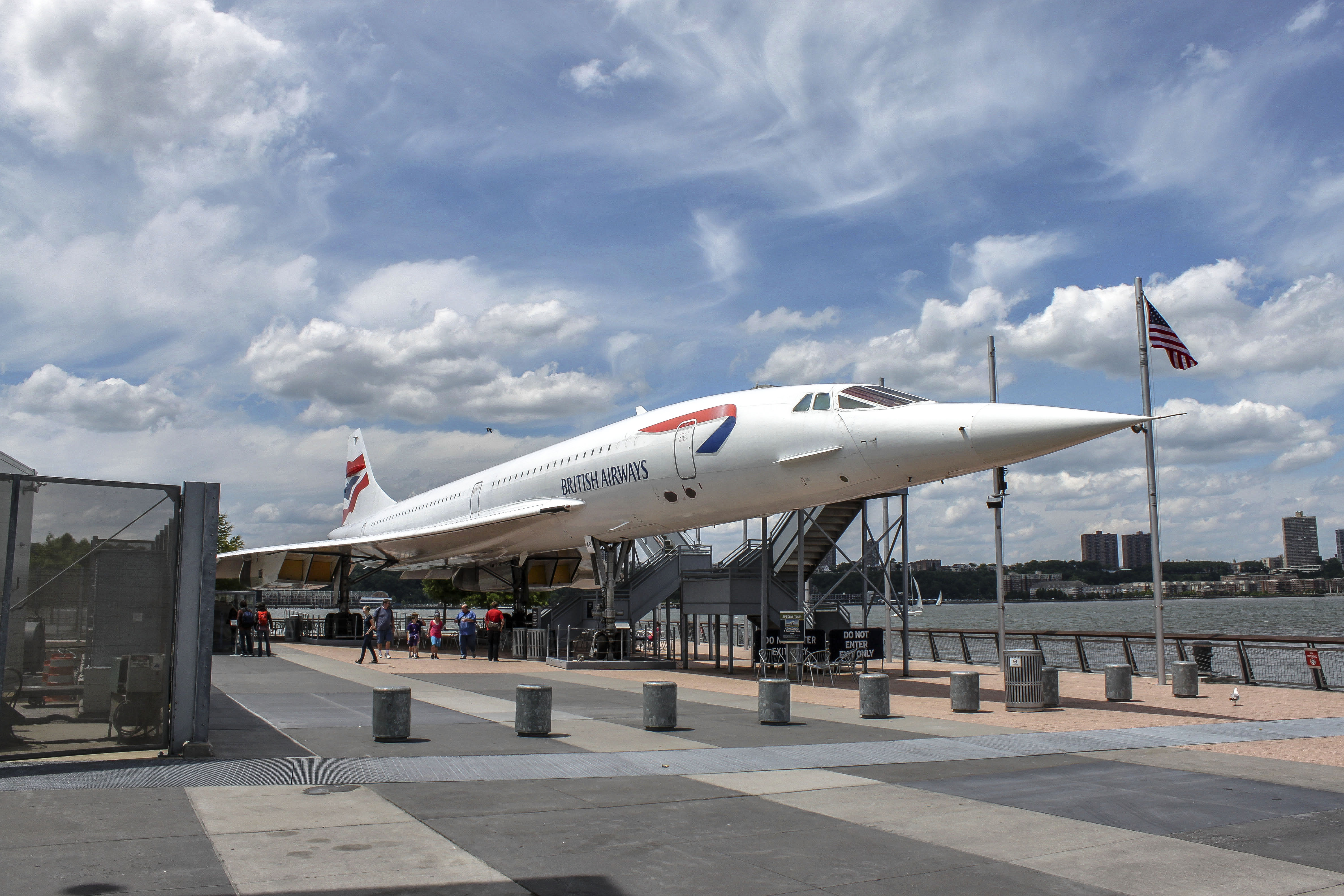 Aérospatiale/BAC Concorde 102 of British Airways (Reg: G-BOAD) seen on permanent display in New York City, Intrepid Sea, Air & Space Museum.